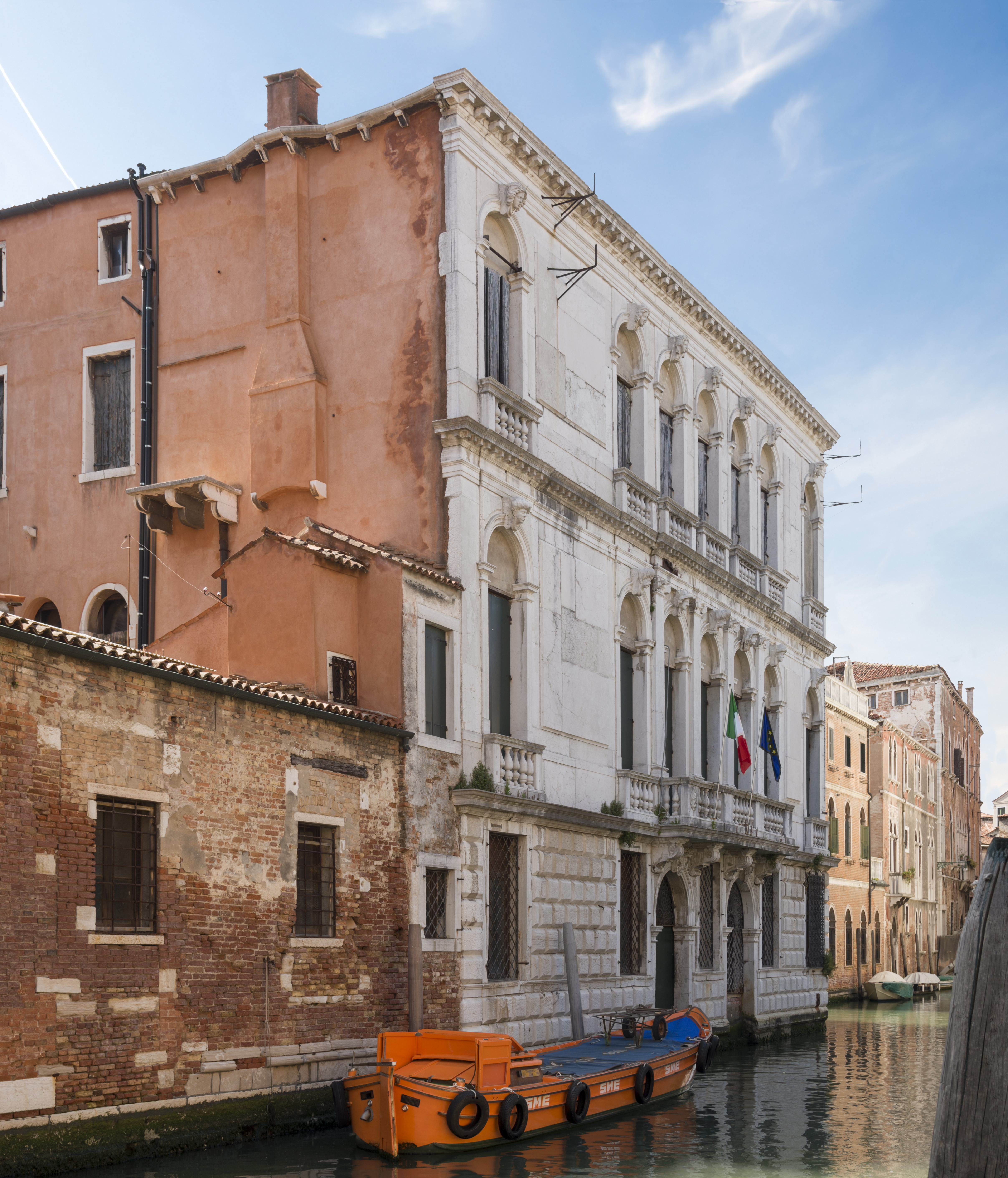 Palace Zane Collalto in Venice. Facade on Rio de Sant'Agostin.